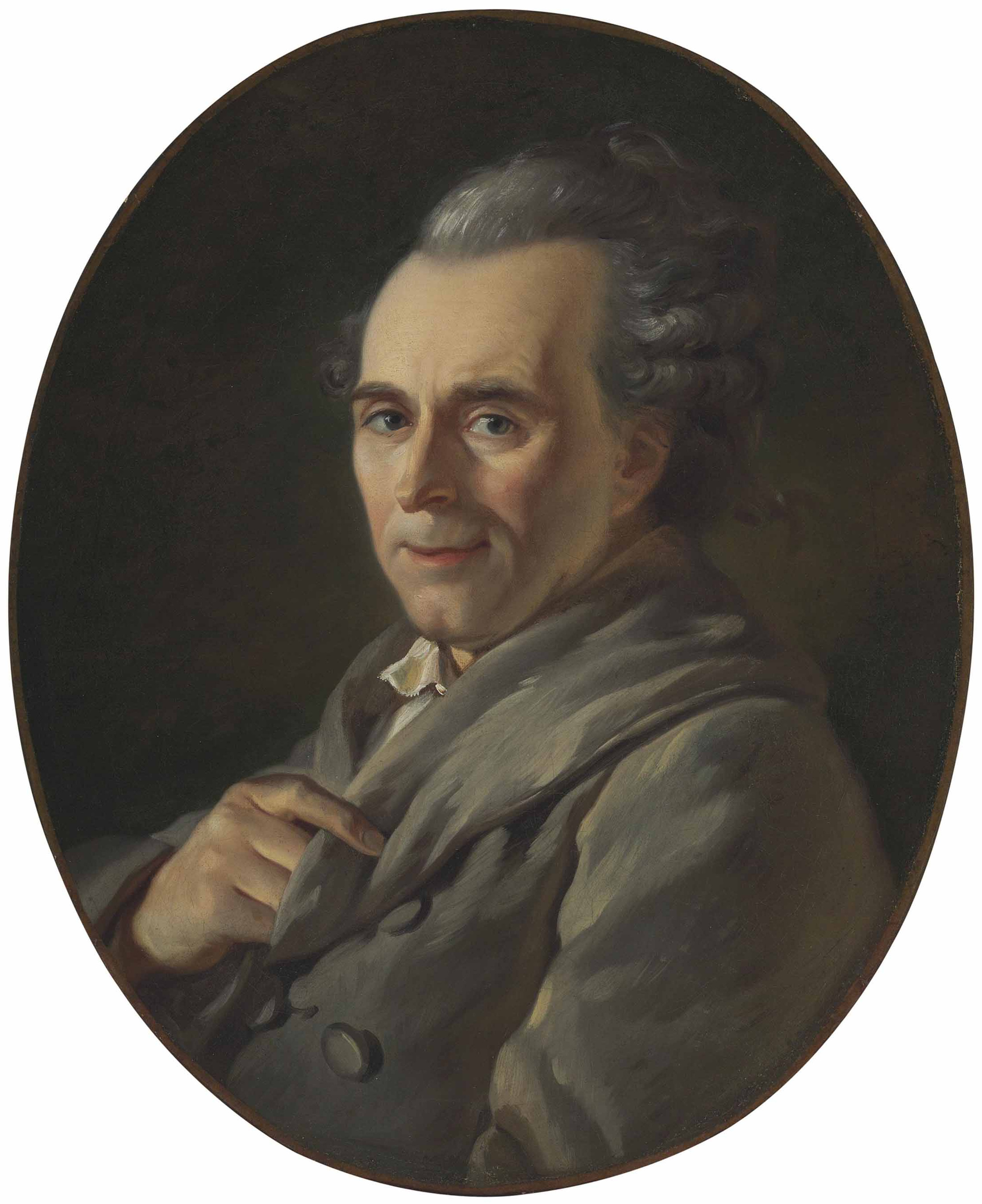 Michel-Jean Sedaine, French dramatist and librettist (1719–1797)